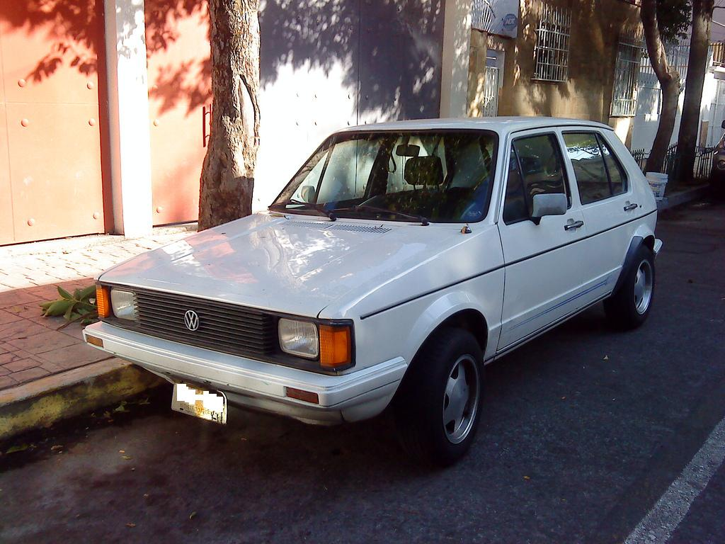 A 1987 limited edition 5 door Volkswagen Caribe Plus in Mexico City